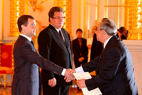 THE KREMLIN, MOSCOW. Ambassador of the State of Palestine Afif Safieh presents his letter of credentials to the President of Russia.